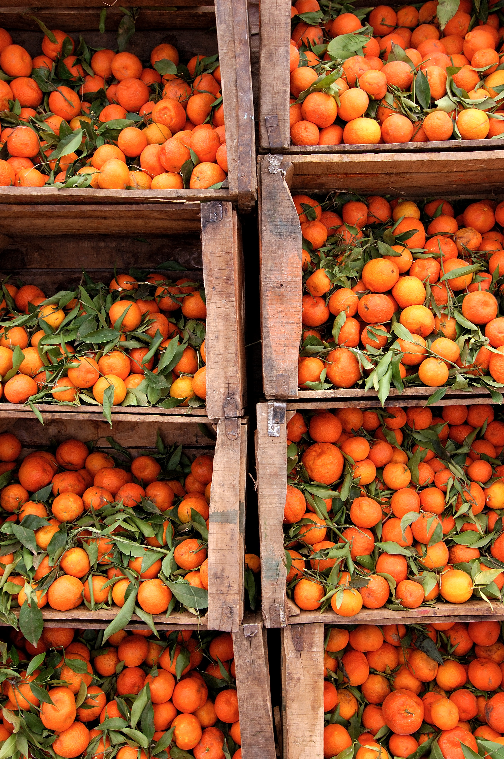 Oranges in Boumalne du Dades, Dadès Gorges, Morocco